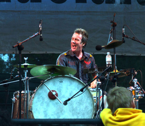 Rob Hirst playing with The Backsliders at Womadelaide 2007